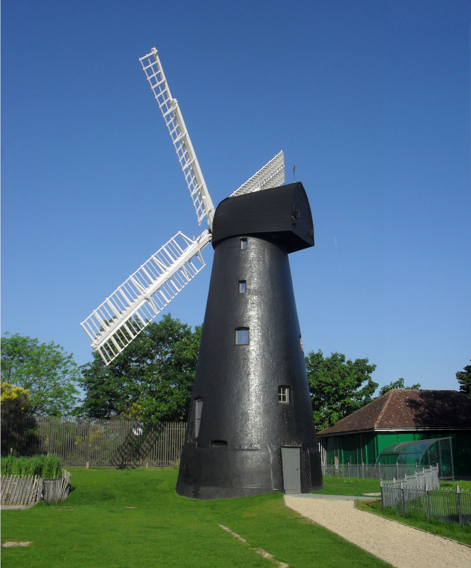 Ashby's Mill is just south of Allerton Street where my father, John Cutts, spent his early years. Alas that road, along with the rest of the Cornwall Road "village" was demolished in the late 1960s to make way for the dreary Blenheim Gardens estate. In his book The Brighton Road, written in 1892, Charles Harper wrote: "On the right hand side, at the summit of Brixton Hill, there still remains an old windmill. It is in Cornwall Road. True, the sails of its tall black tower are gone, and the wind-power that drove the machinery is now replaced by a gas-engine; but in the old building corn is yet ground, as it has been since 1816 when John Ashby, the Quaker grandfather of the present millers, Messrs. Joshua & Bernard Ashby, built that tower. Here, unexpectedly, amid typical modern suburban developments, you enter an old-world yard, with barns, stables and cottage, pretty much the same as they were over a hundred years ago, when the mill first arose on this hill-top, and London seemed far away." When my father was grew up there in the early 20th century, Brixton Hill would still have been much as Harper described it. The "typical modern suburban developments" he referred to would have been the roads around Cornwall Road that you can see glimpses of in the second version of Alfred Hitchcock's film The Man Who Knew Too Much. If you scroll down to the first comment, you can see some stills from that film along with some early pictures of the windmill. The above photo was taken in May 2012, replacing an earlier one taken when the sky was grey.